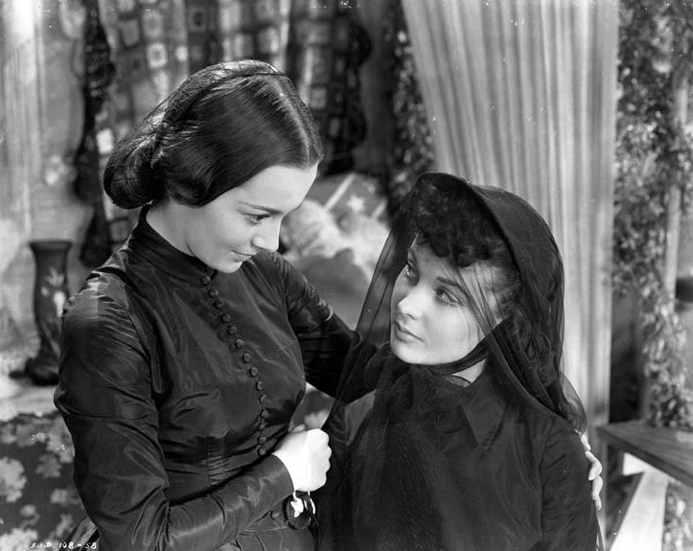 Olivia de Havilland and Vivien Leigh publicity photo for Gone with the Wind, 1939